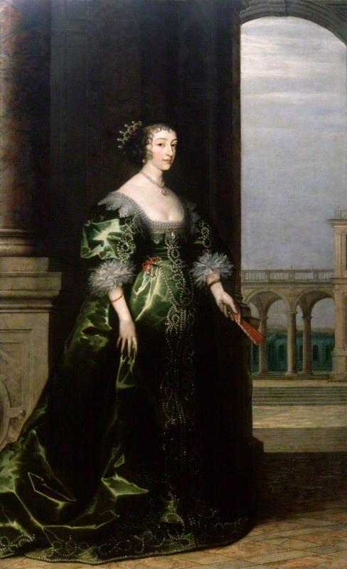 Henrietta Maria of France (1609-1669), Queen of Charles I.